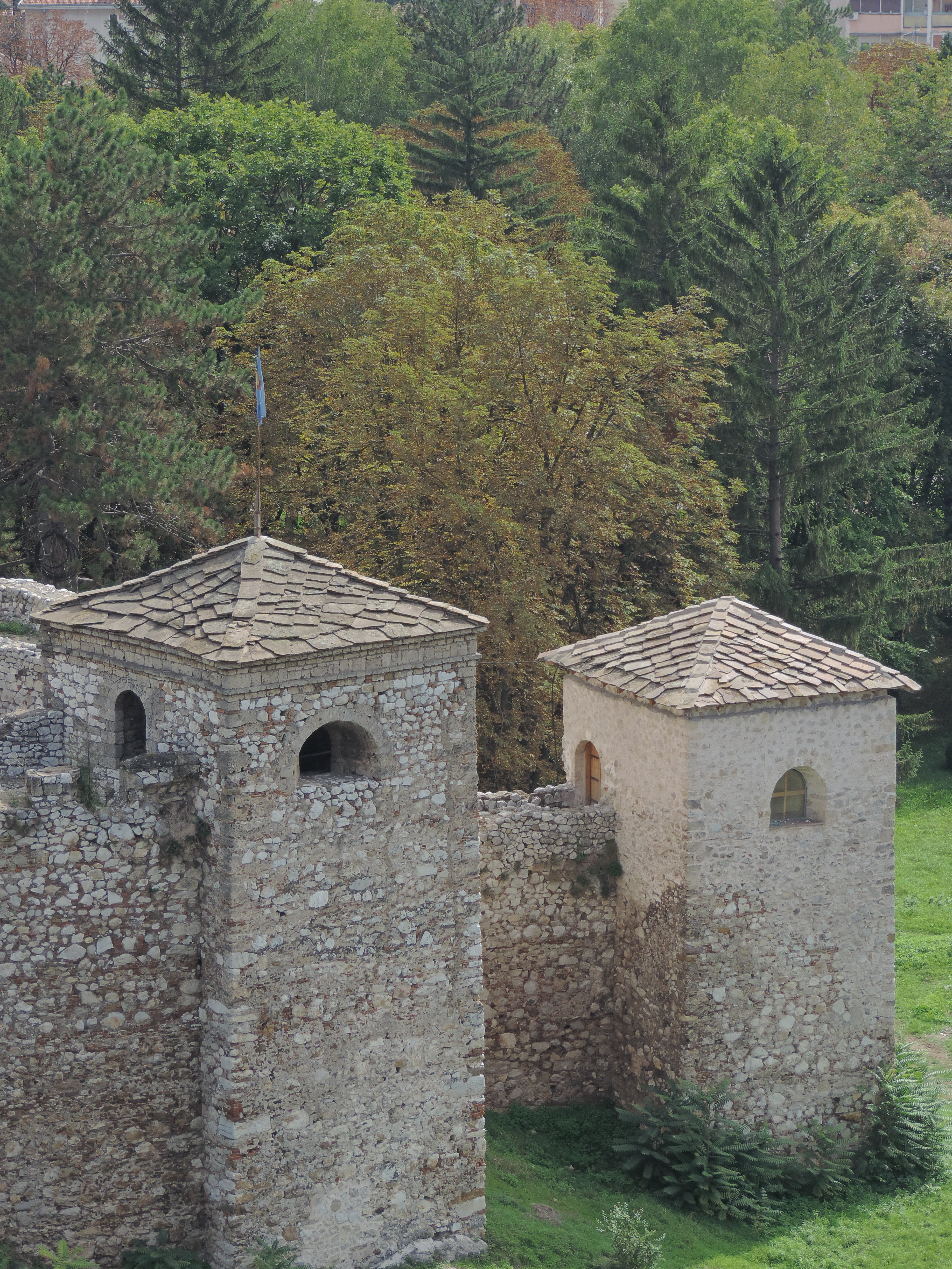 Pirot Fortress